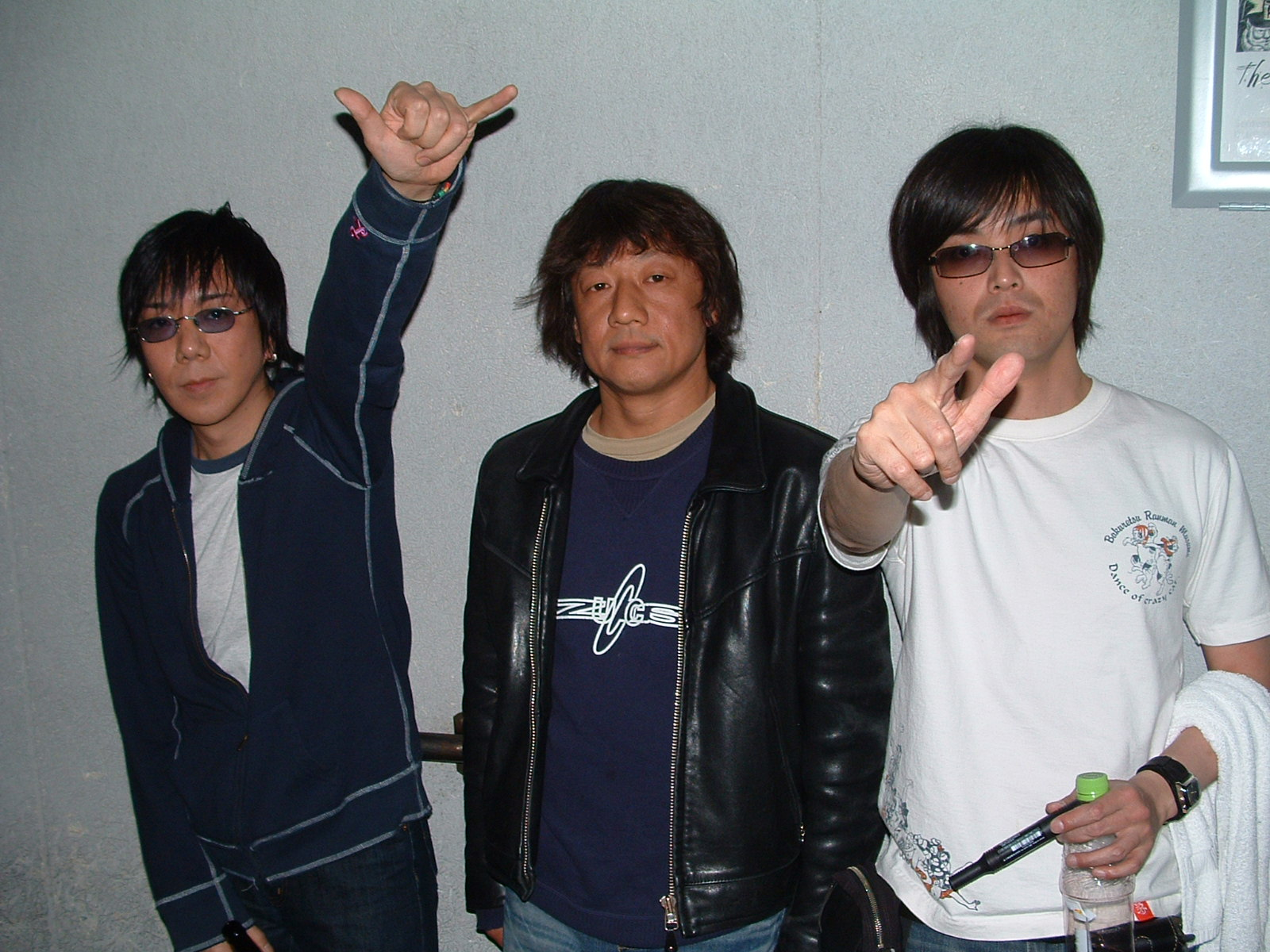 The Japanese alternative rock band the pillows at J!-ENT LIVE on March 25, 2005.